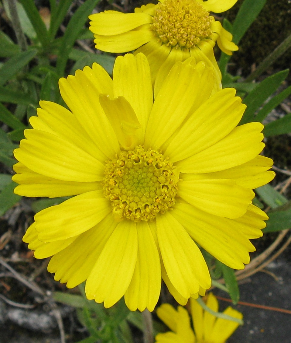 Tetraneuris herbacea, Misery Bay Provincial Park, Manitoulin Island, Canada